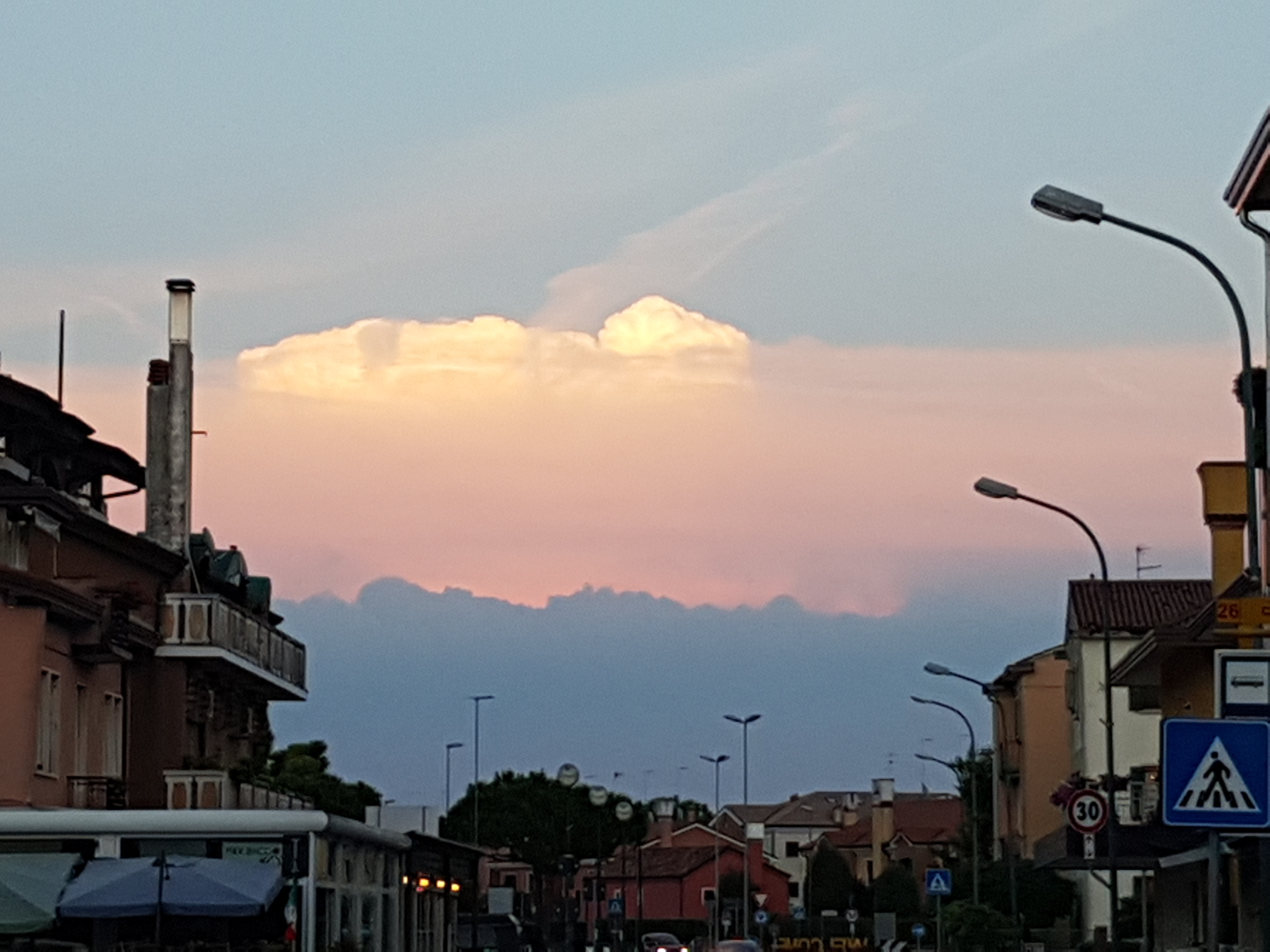 Cavallino-Treporti